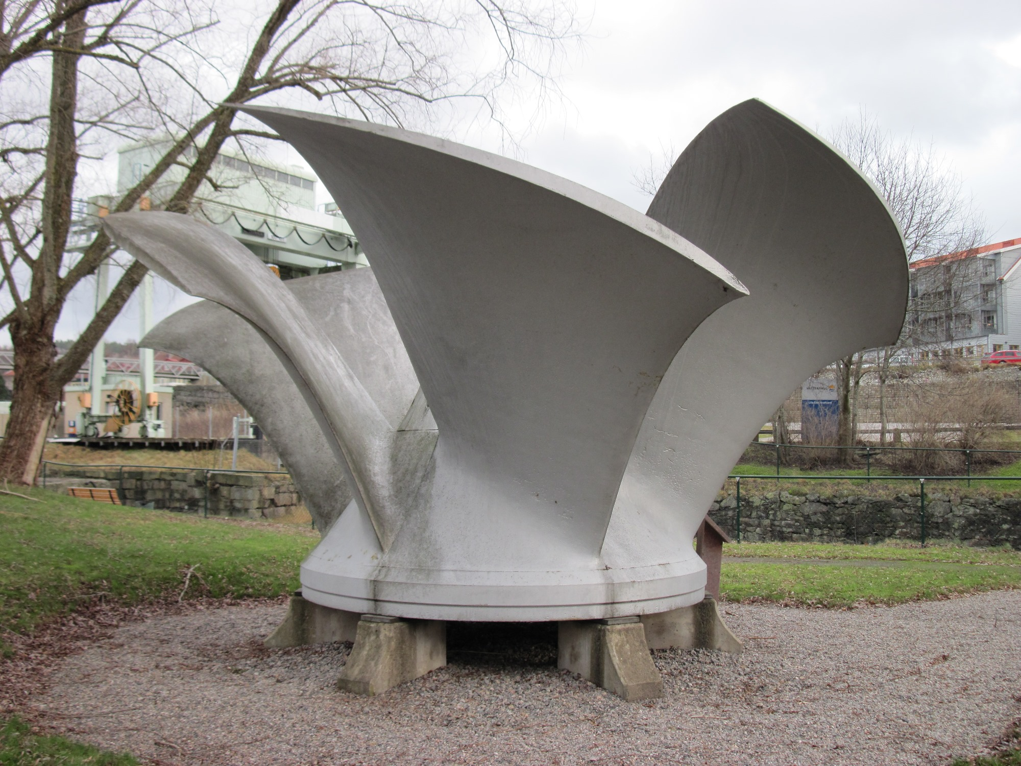 An impeller by Lawaczeck type stairs outside the power plant of Lilla Edet. The impeller was used in the power plant's unit 2 between 1926 and 1985.